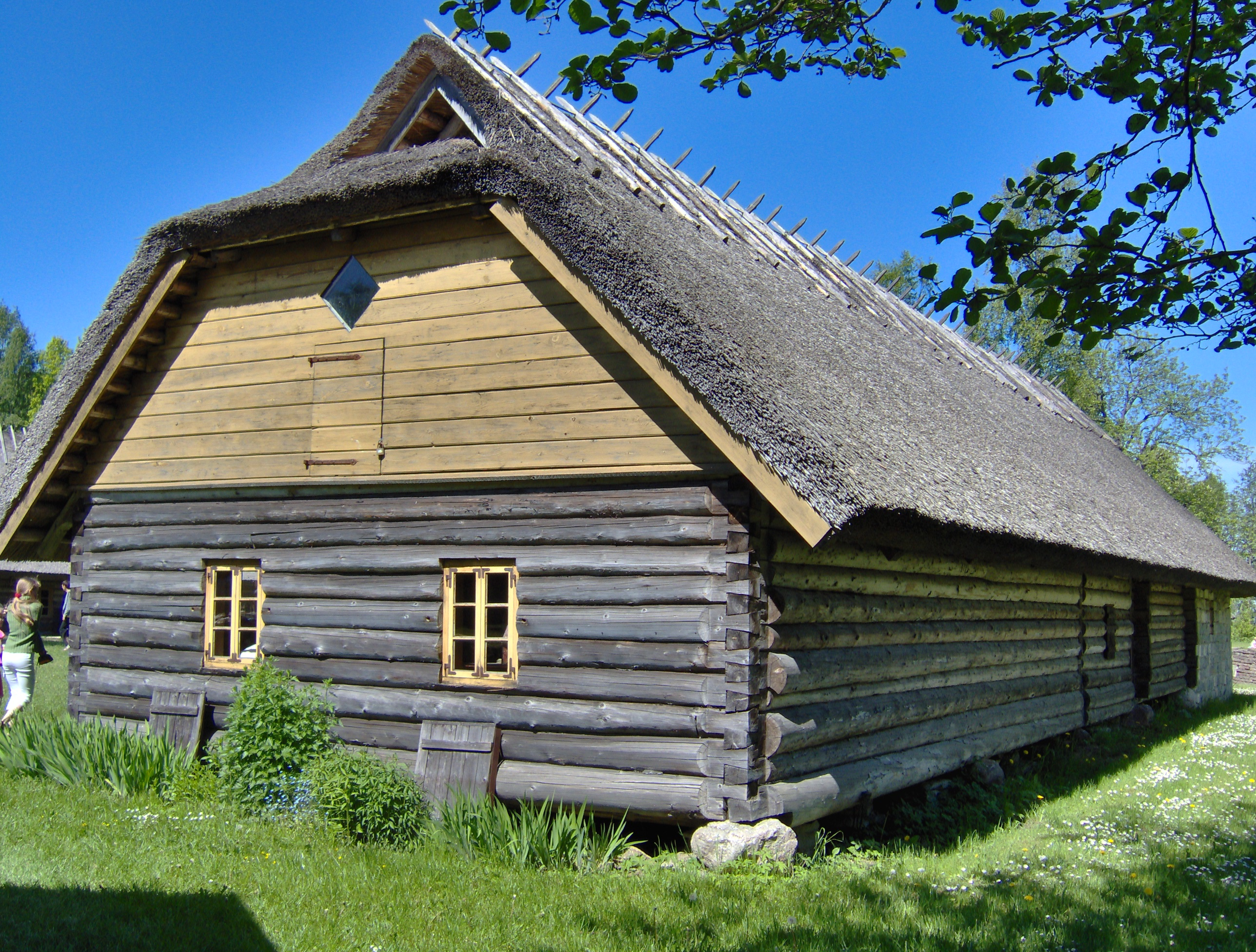 Estonian Open Air Museum